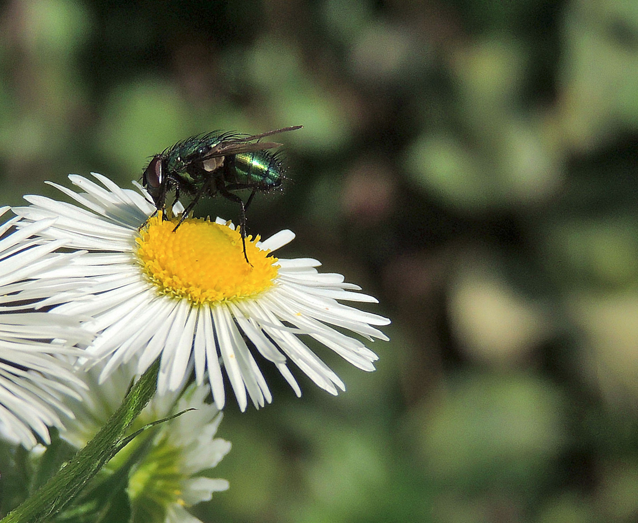 Adults are pollinators of flowers.